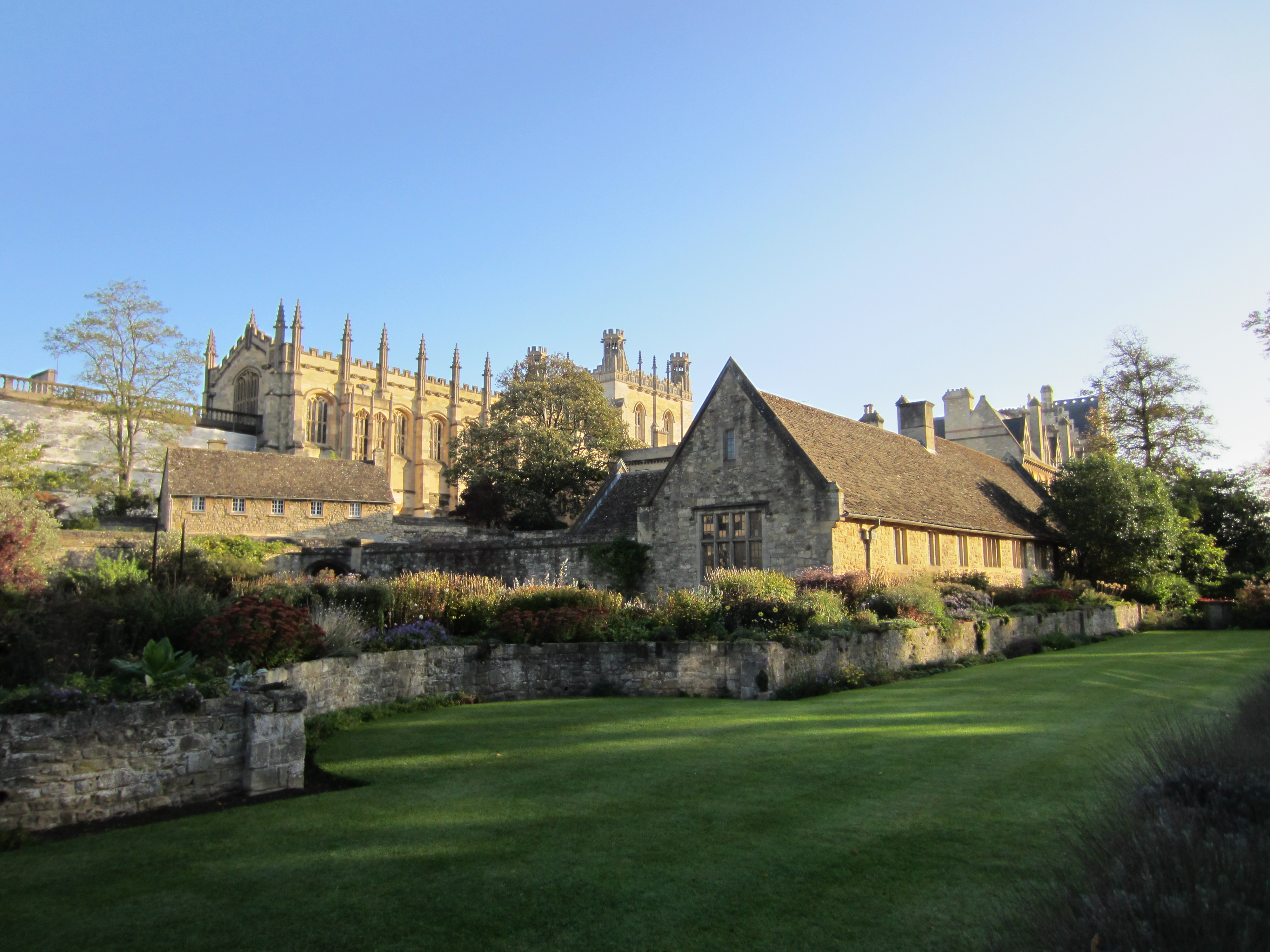 War memorial garden, Christ Church, Oxford